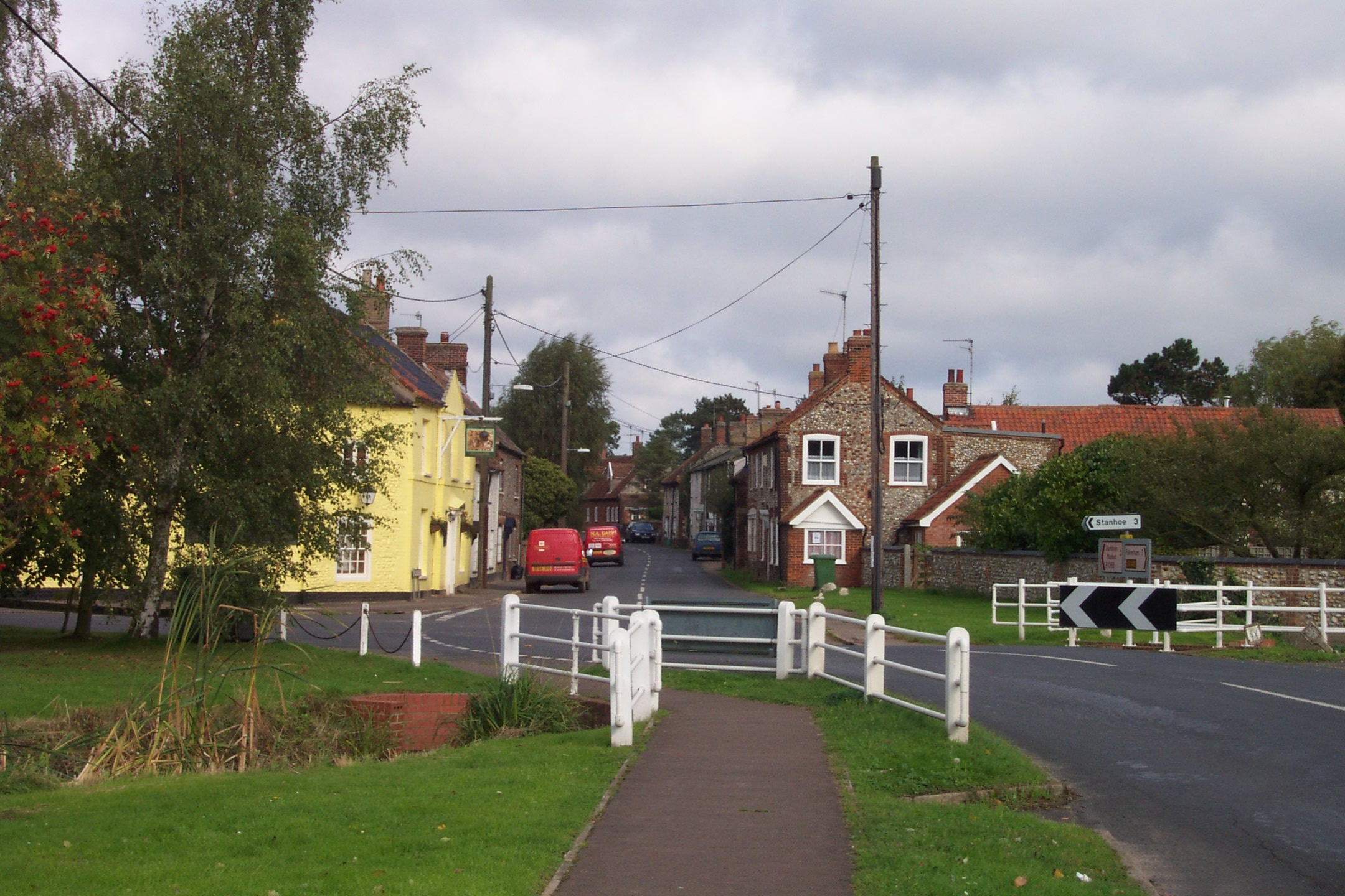 The village of North Creake in the English county of Norfolf. For more information see the Wikipedia article North Creake.